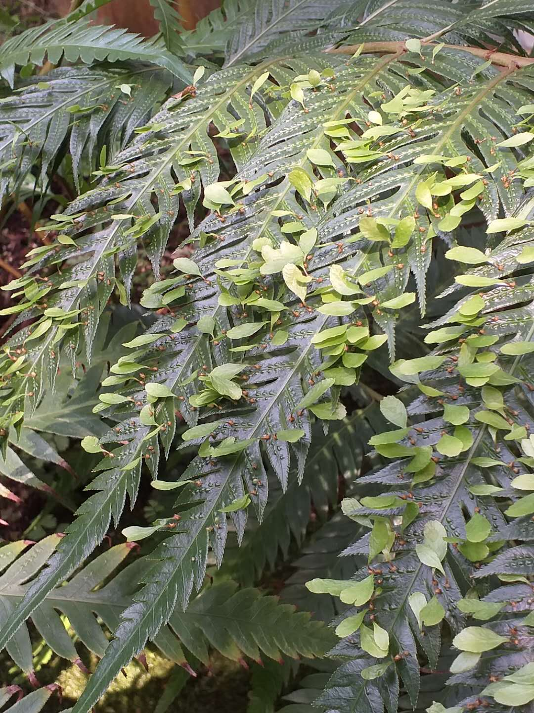 Adventitious bud of Woodwardia orientalis, ”A Fern Paradise in Taiwan - Permanent Exhibition”, Taichung, Taiwan.